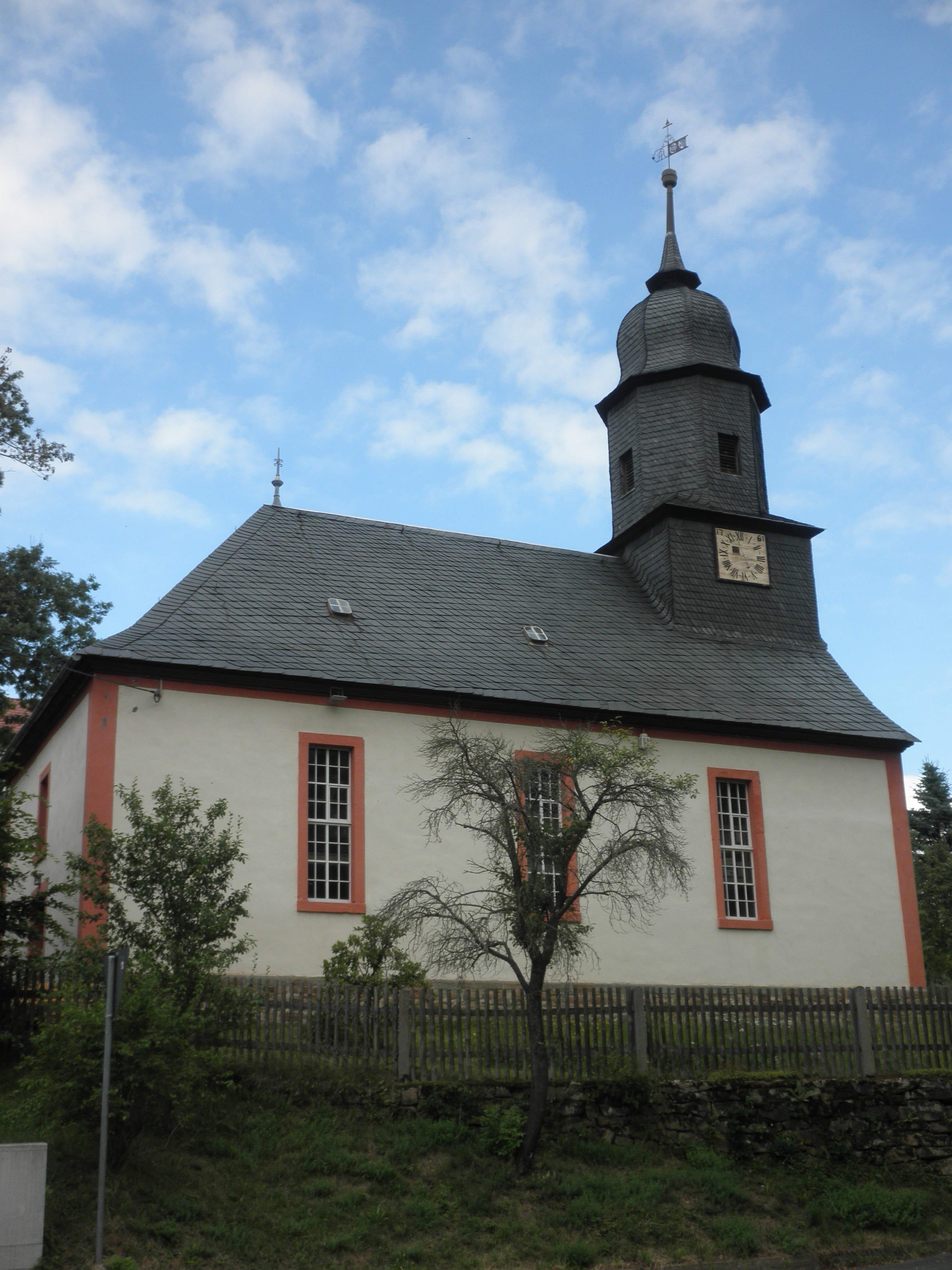 Church in Breitenhain (Neustadt an der Orla) in Thuringia